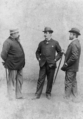 Puccini and his librettists.